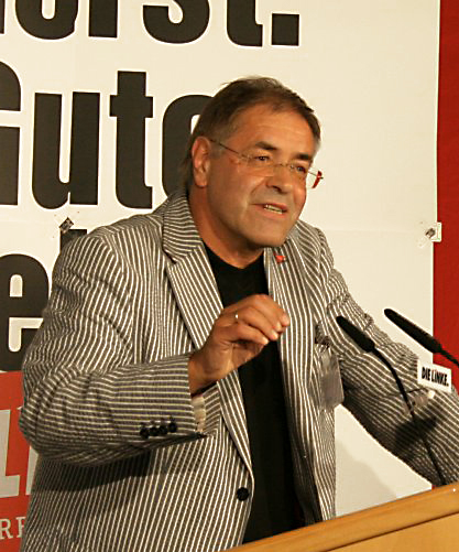 Klaus Bartl, German politician of Saxony, Die Linke